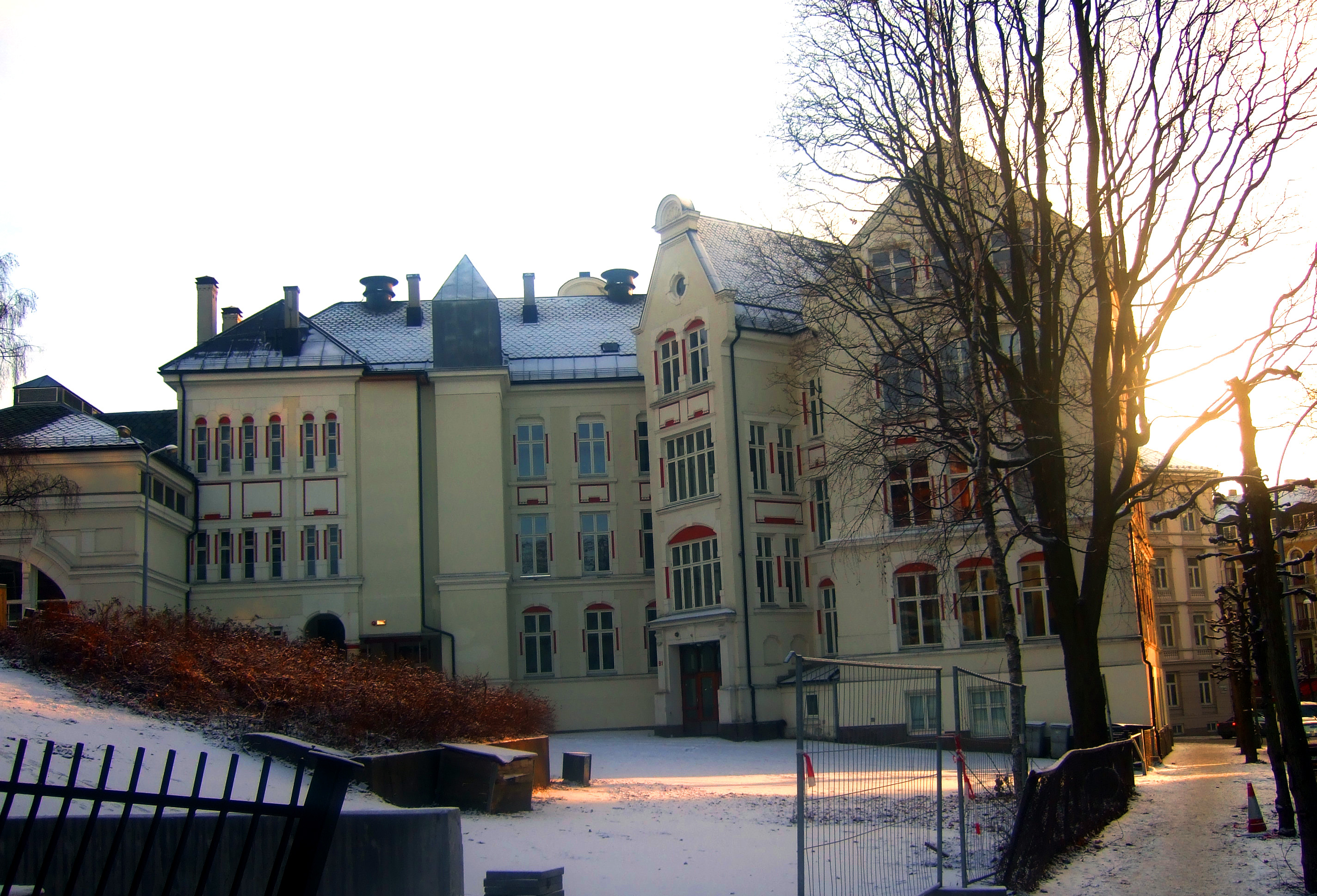 Former Frogner school, now building is used by Hartvig Nissen upper secondary school, Oslo Norway